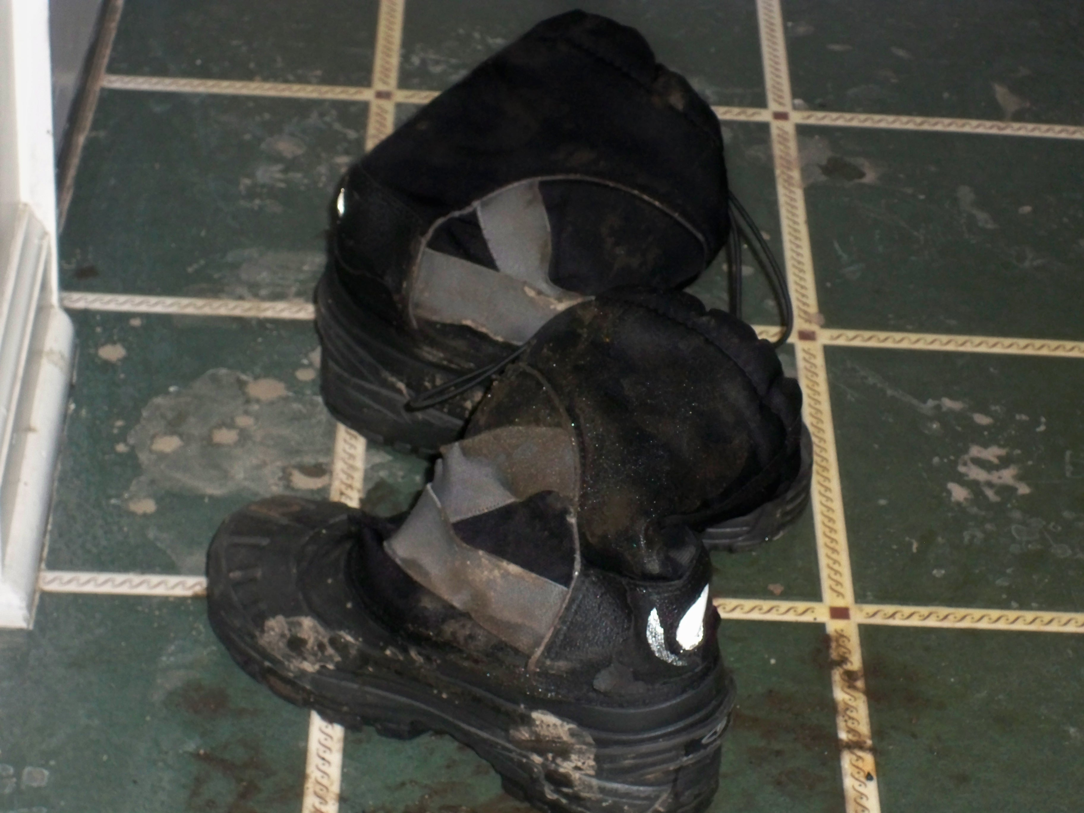 An old pair of mud-covered snowboots.